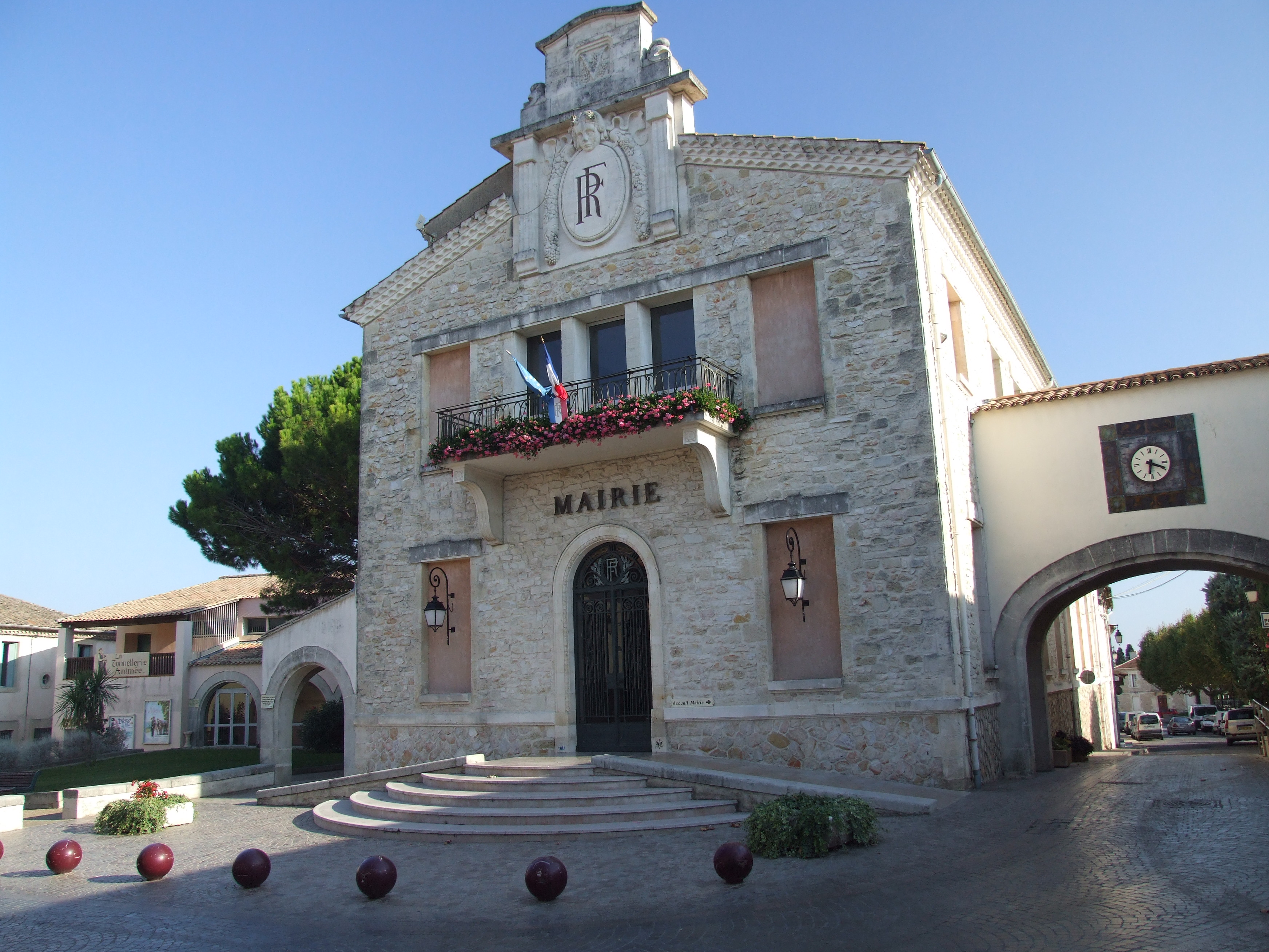 The commune of Vergèze, ( post code is F30310 and INSEE 30344 is situated east of the River Rhôny Calvisson in the departement of Gard. in the region Languedoc-Roussillon in southern France. It is the home of the Perrier bottling plant.